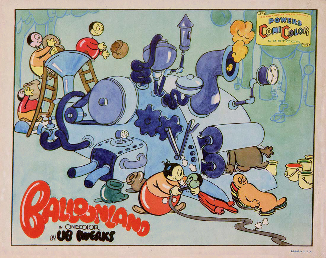 Lobby card for the 1935 cartoon short, Balloonland.